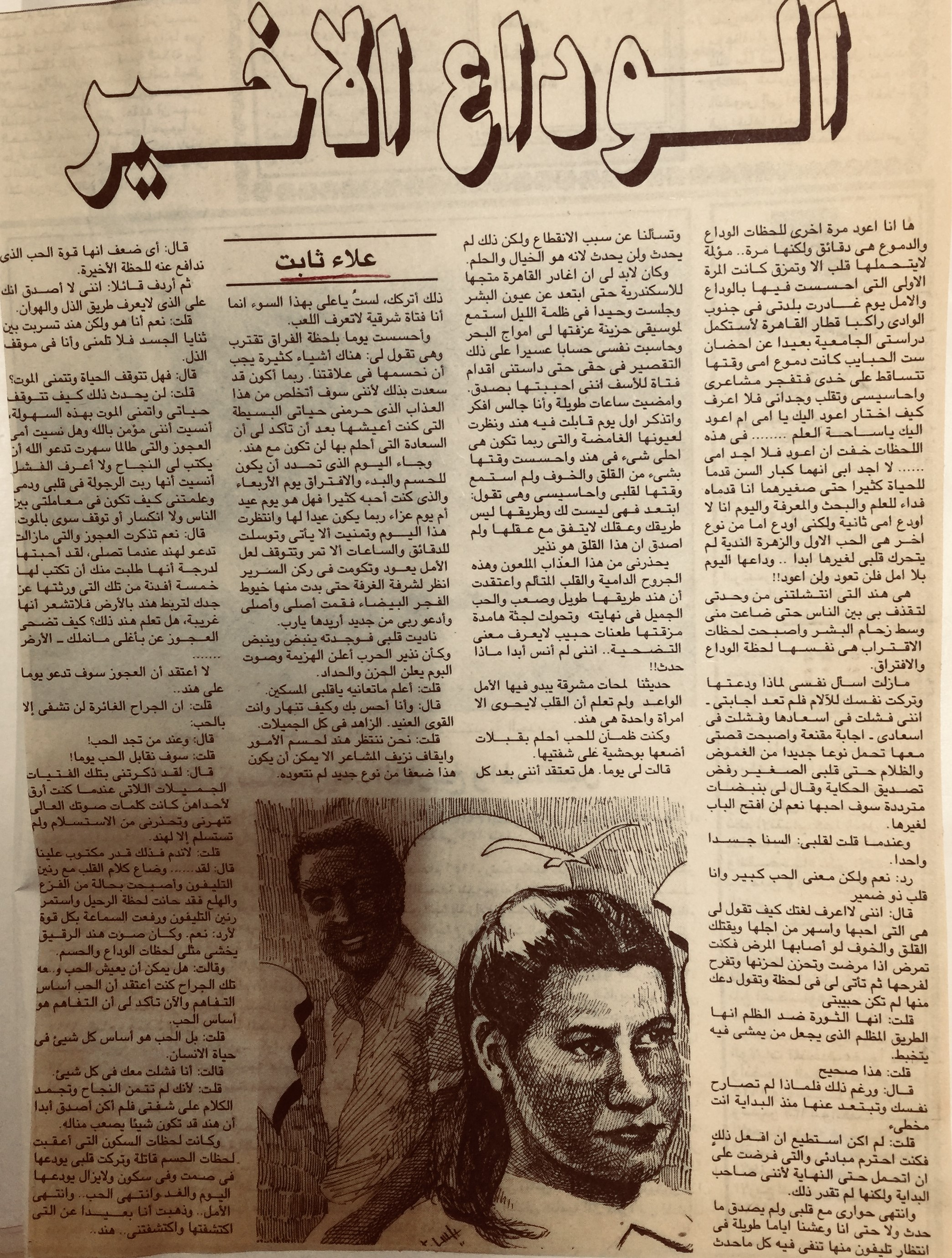 The story of "The Last Farewell" by Alaa Thabet